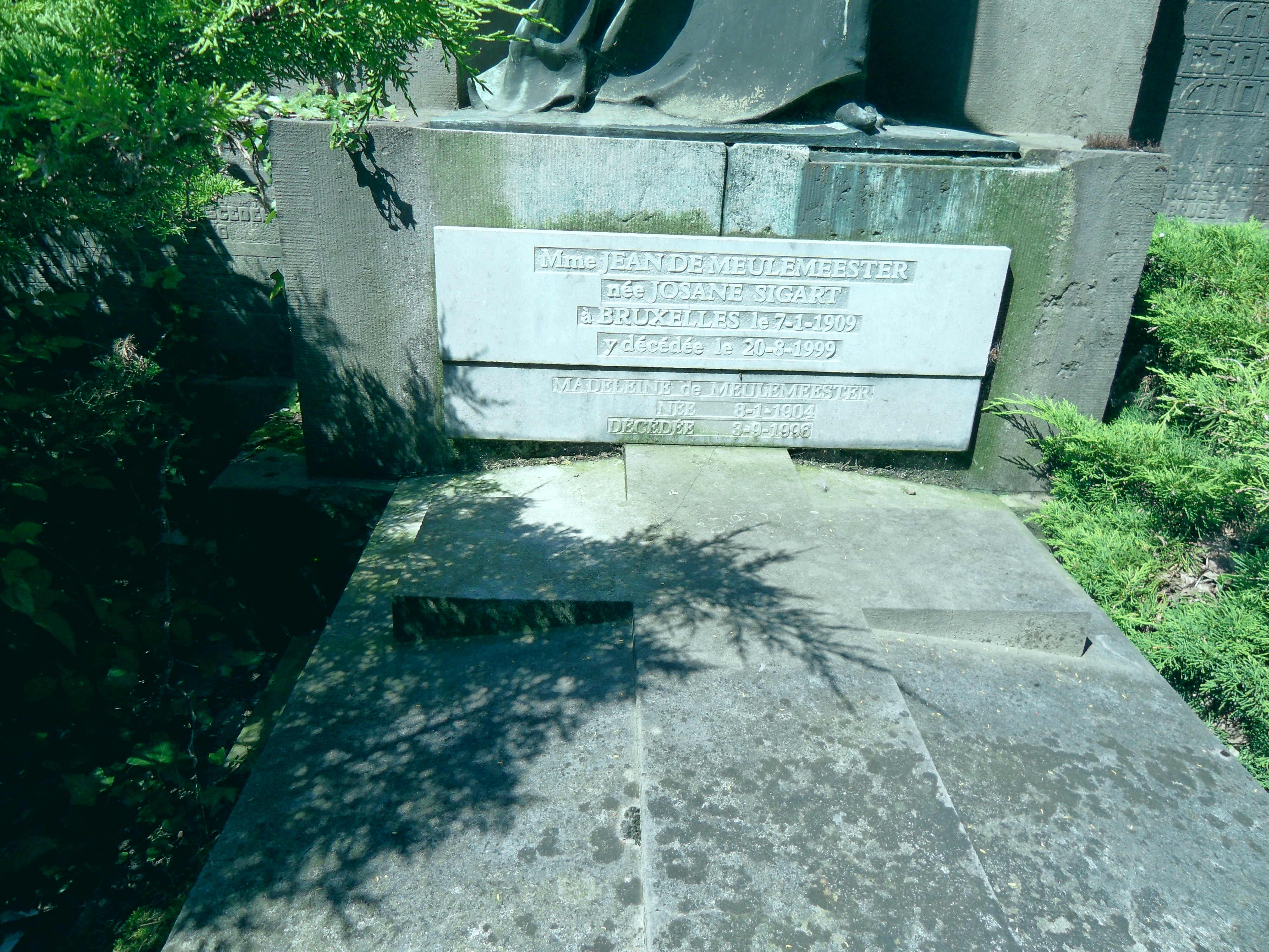 Mrs De Meulemeester-Sigart is buried in Bruges, in the family tomb De Meulemeester